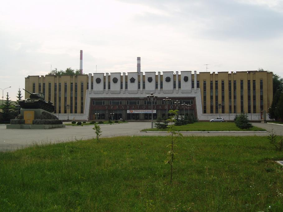 One of the buildings of Uralvagonzavod (Nizhny Tagil, Russia). A T-34 tank is displayed to the left.